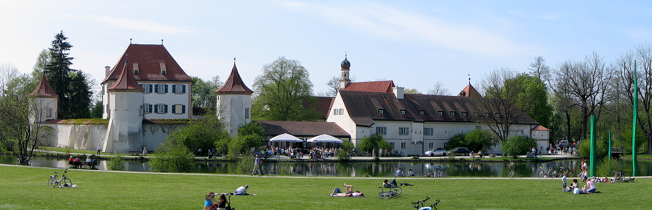 Castle Blutenburg, Munich, Germany